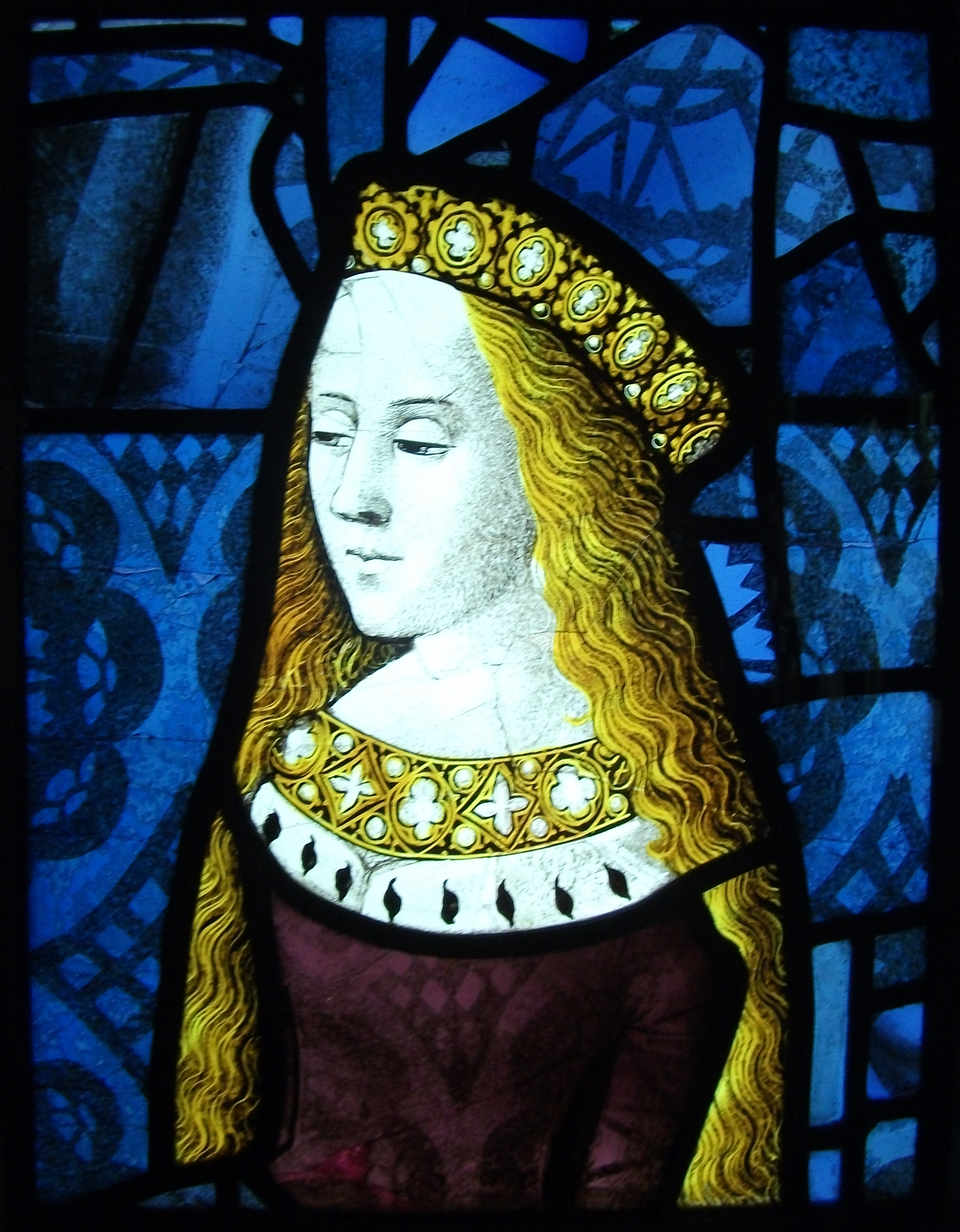 Stained glass in the Burrell Collection, Princess Cecily, daughter of Edward IV of England. Panel is no. 38 in Marks, Richard and Williamson, Paul, eds. Gothic: Art for England 1400–1547, 2003, V&A Publications, London, ISBN 1851774017